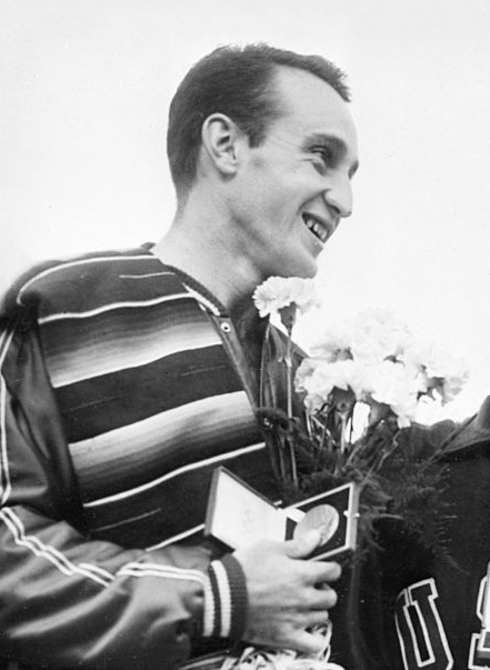 1952 Press Photo PJ Capilla, S Lee & G Haase win Olympic diving event